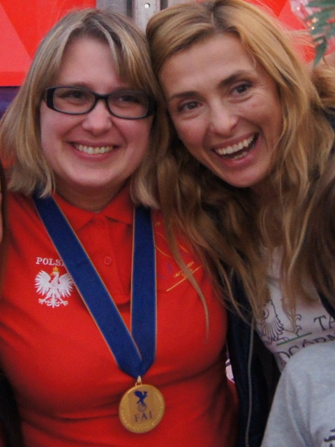 Ewa Prawicka-Linke - Beata Choma, European champions 2015 and 2017